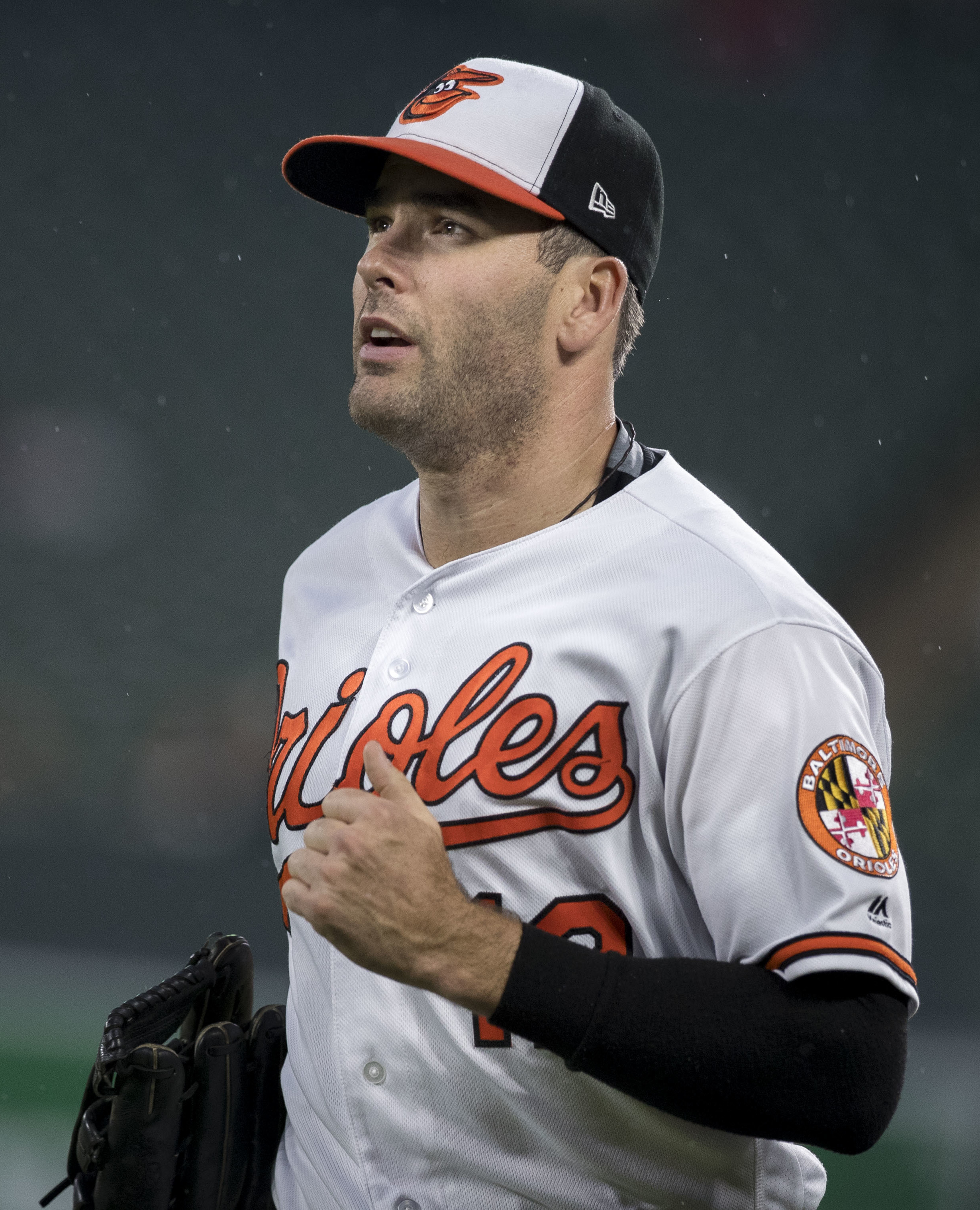 Twins at Orioles 5/23/17